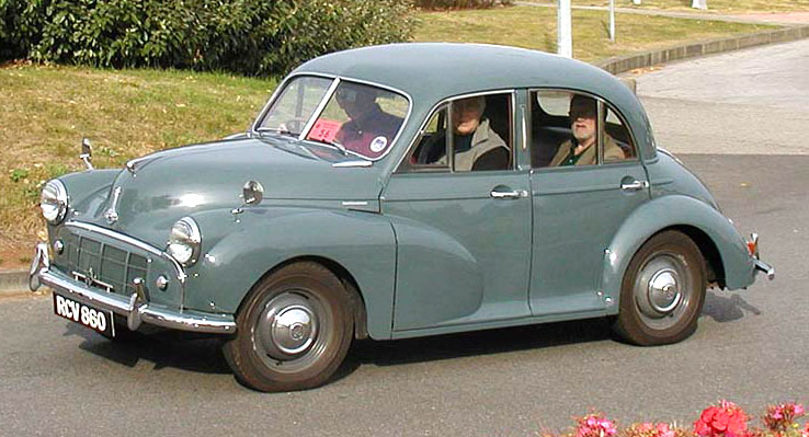 Morris Minor Series II